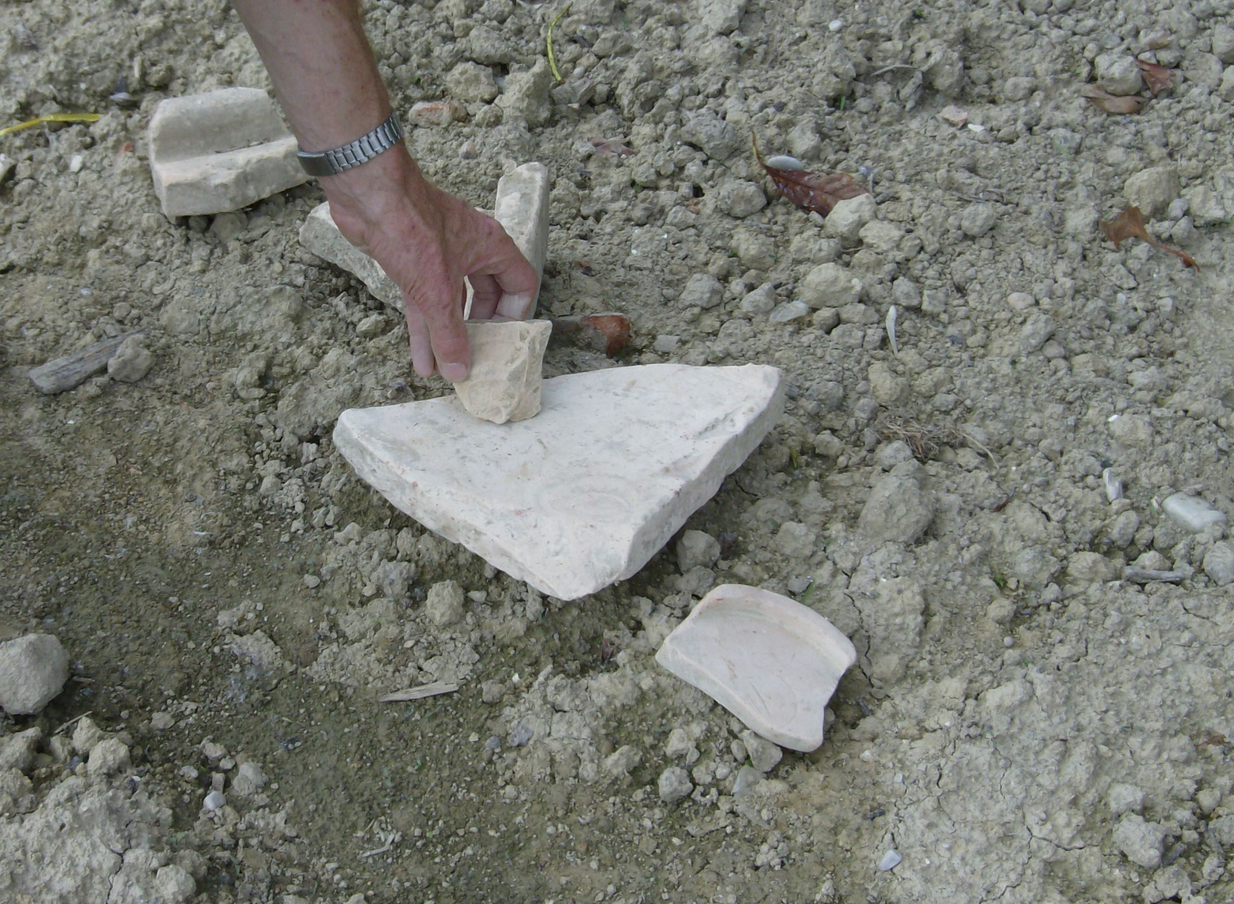 Roman building material found near the Motta di Tasca